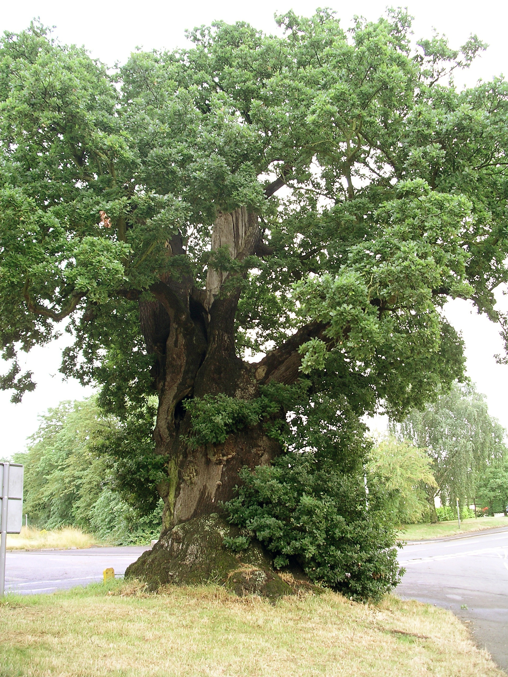 Photo taken by me of the Baginton Oak tree in late July 2006 one evening in Baginton, Warwickshire.